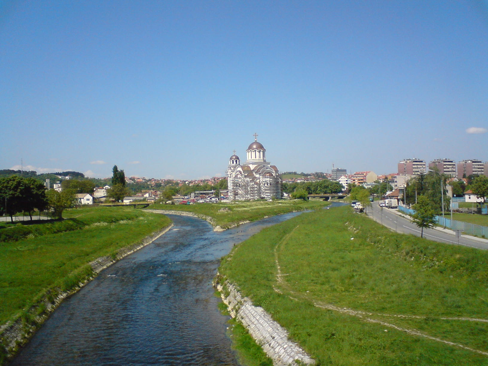 Estuary of rivers Kolubara and Gradac in Valjevo